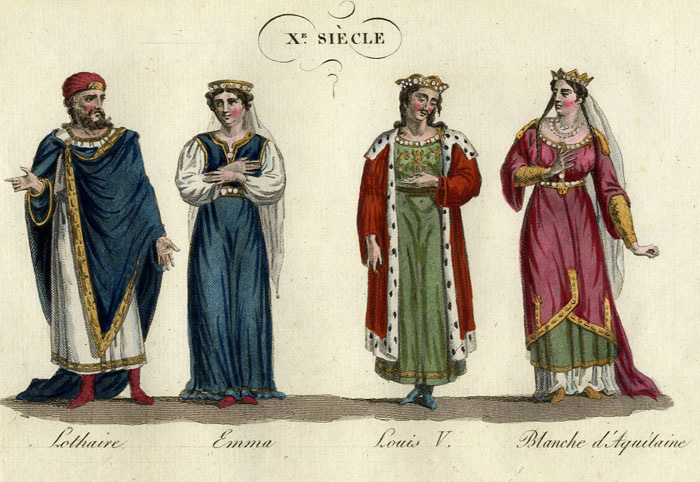 Original caption : Top : 10th century Bottom : Lothair - Emma - Louis V - Blanche of Aquitaine [sic for Adelaide-Blanche of Anjou]